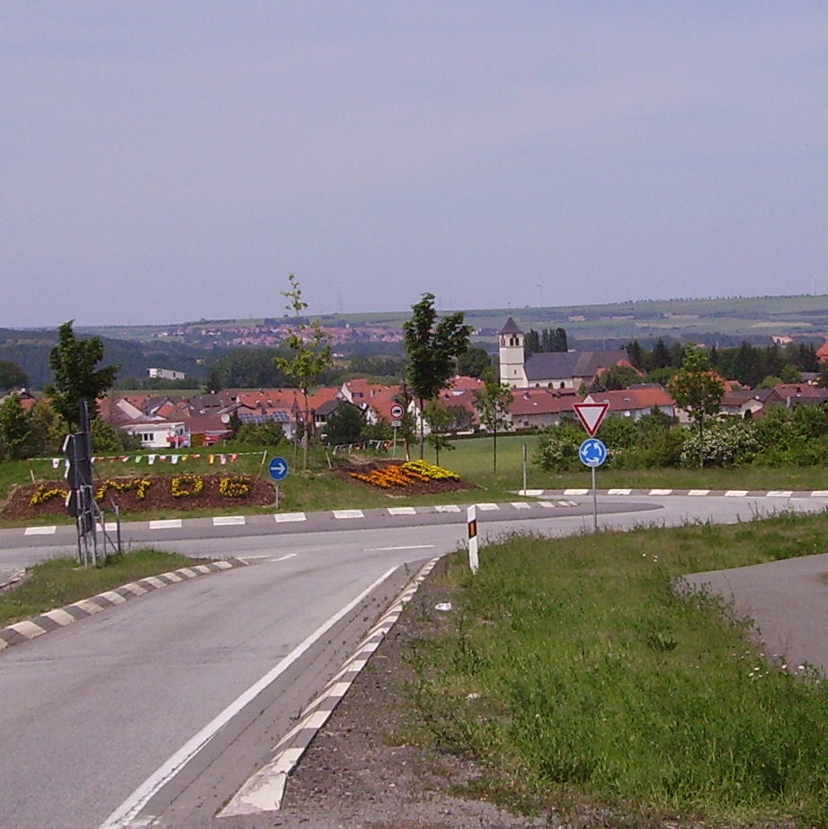 views of Hettenleidelheim in the Palatinate, Germany